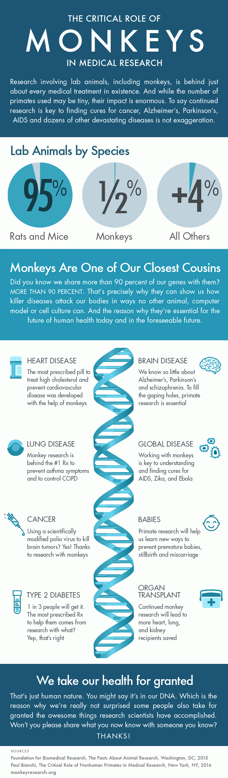 This graphic describes the advances of nonhuman primate research and includes a series of pie charts which depict the percentages of total lab animals by species.